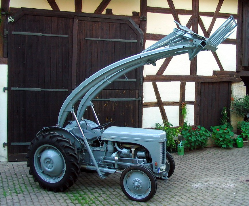 Ferguson TEF with Banana Loader and Muck Fork. The fork is rigidly mounted on the front loader, and thus will not be able to tilt. It is discharged with the steel plate that is hydraulically pushed forward and pulled back from two springs.